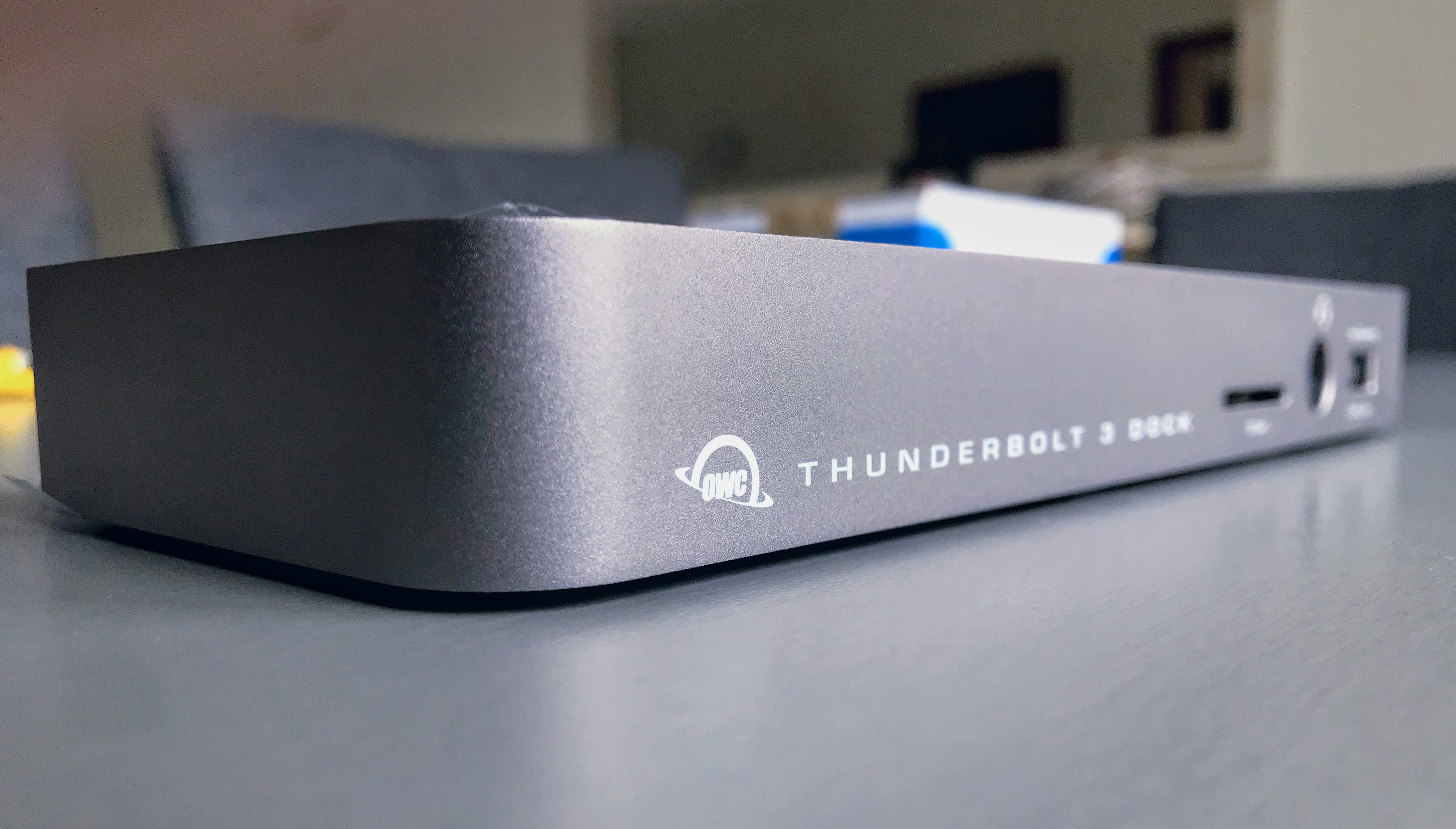 OtherWorldComputing Thunderbolt 3 Dock